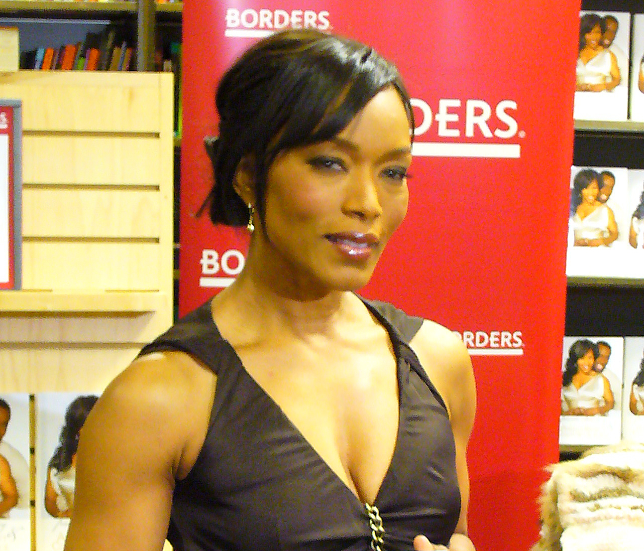 American actress Angela Bassett